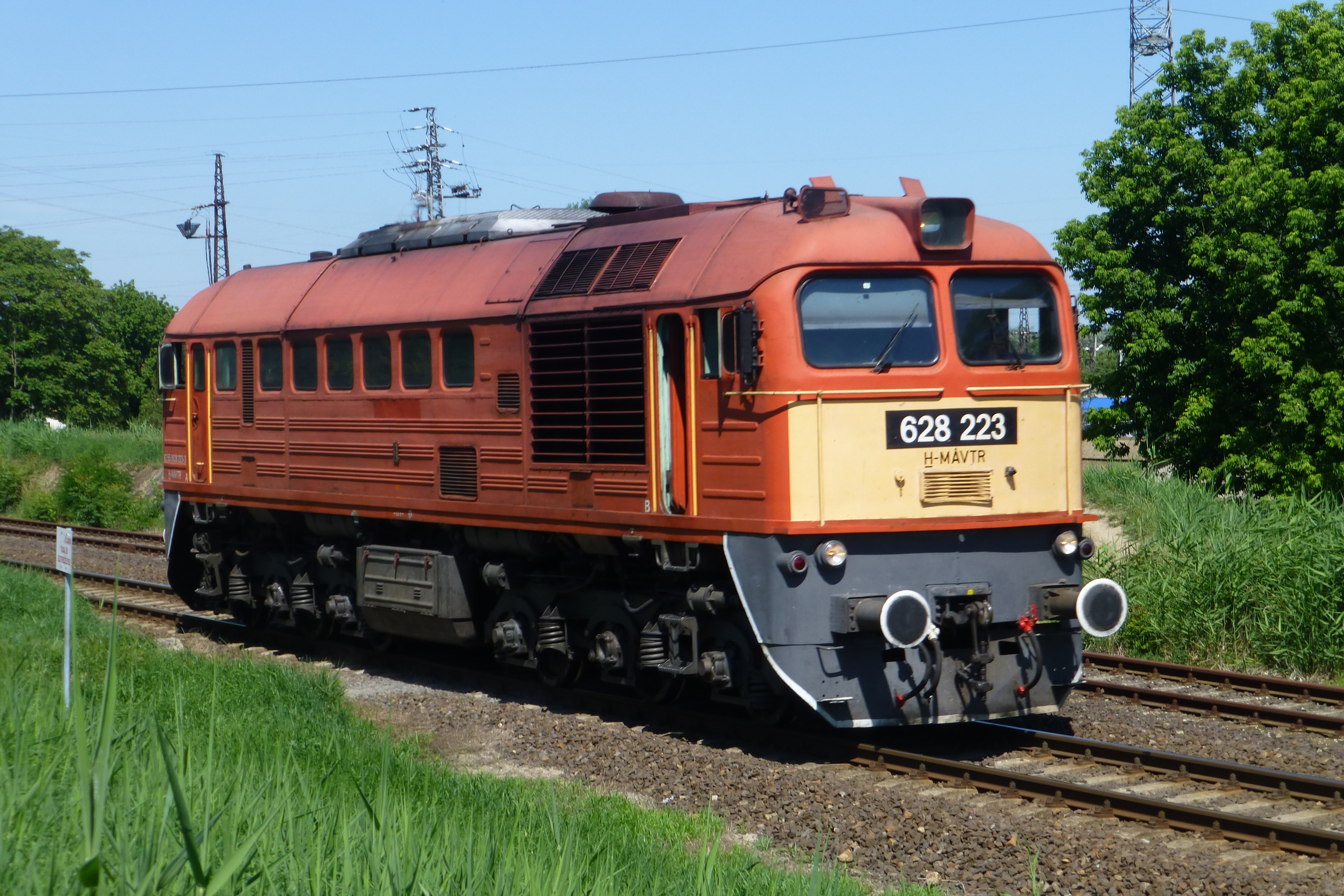 Type M62 diesel locomotive of the MÁV-Trakció, north of Szeged running westwards, direction Szeged-Rendező